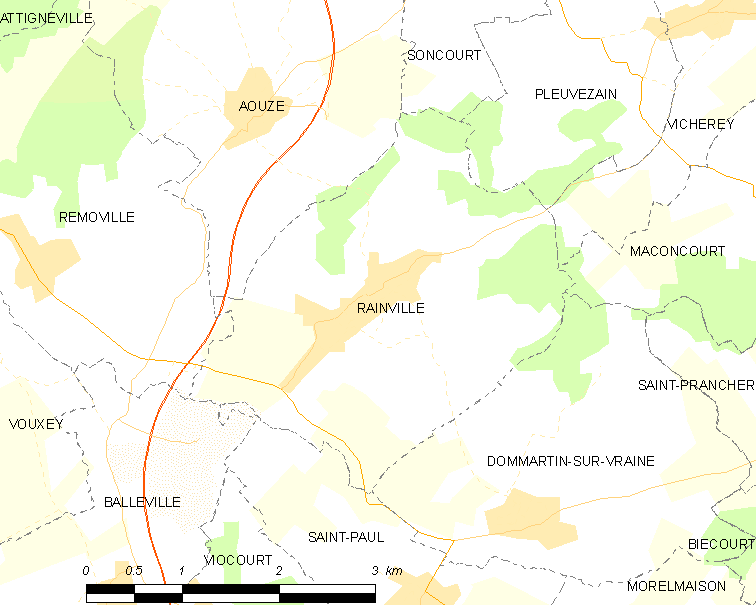 Map of French municipality Rainville